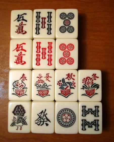 Japanese mahjong tiles, standard design of Red tiles, Flower tiles, 1 Bamboo, green Dragon, 1 Circle, and 8 Bamboo.